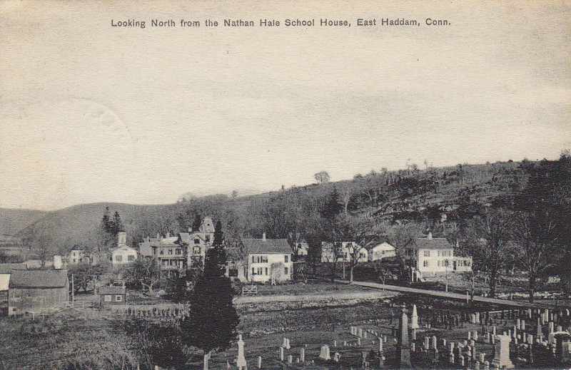 View of East Haddam, Connecticut looking north from the Nathan Hale Schoolhouse, showing some buildings and a cemetery in a rural scene.